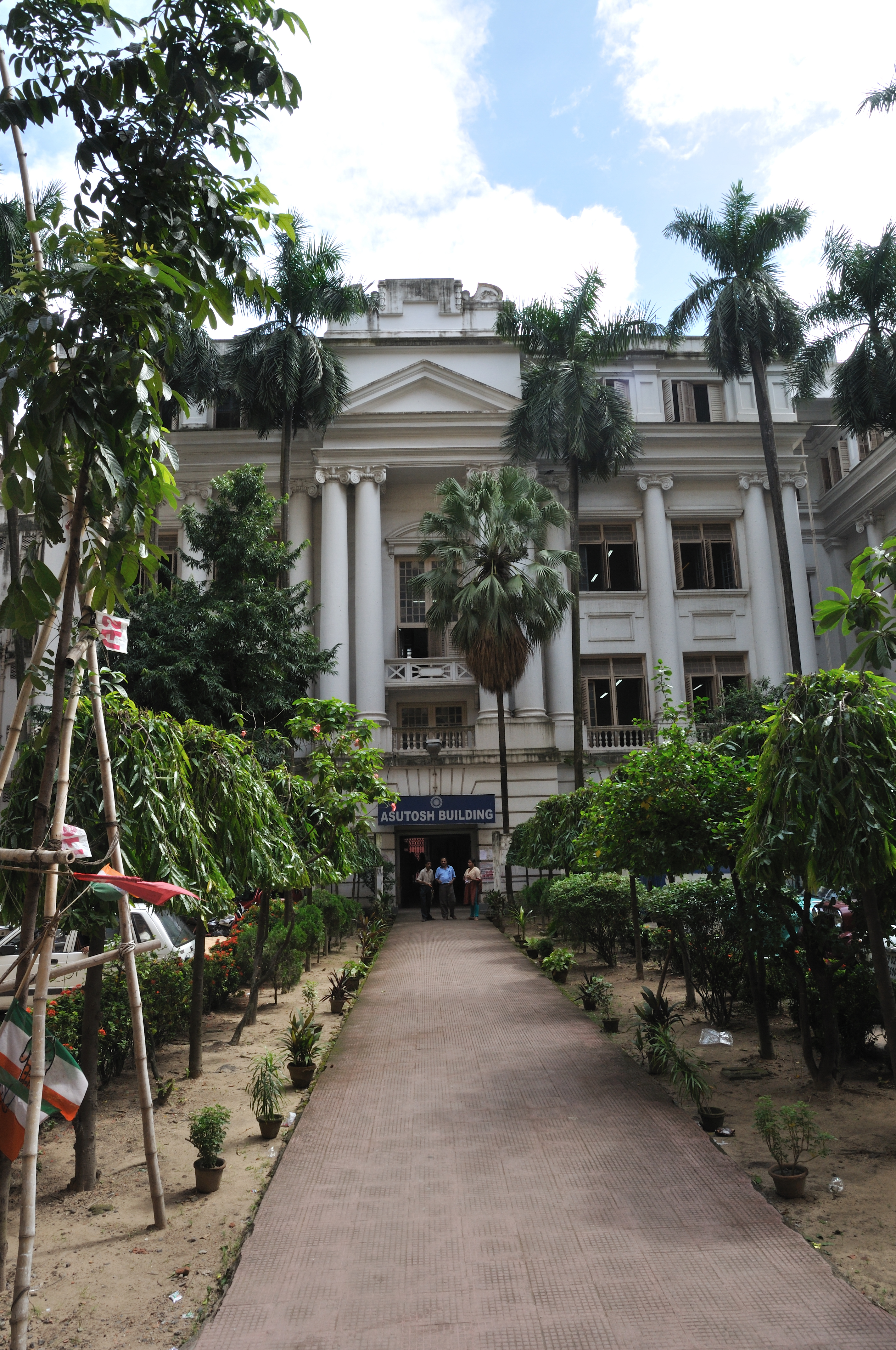 The University of Calcutta (also known as Calcutta University) is a public university located in the city of Kolkata (previously Calcutta), India.